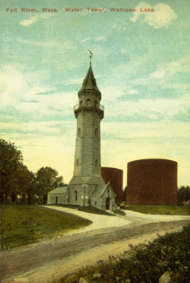 Fall River Watertower